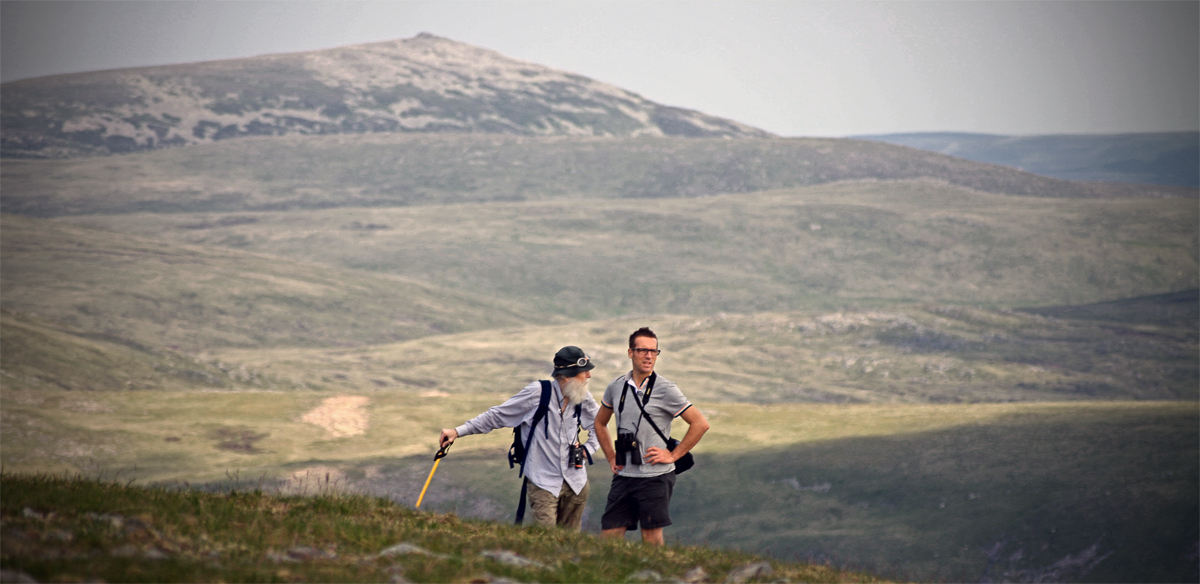 Dr Adam Watson and colleague carrying out annual snow-patch survey from Glas Maol.